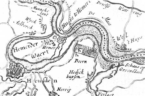 Original map of Bern in the Atlas van Blaeu 1648